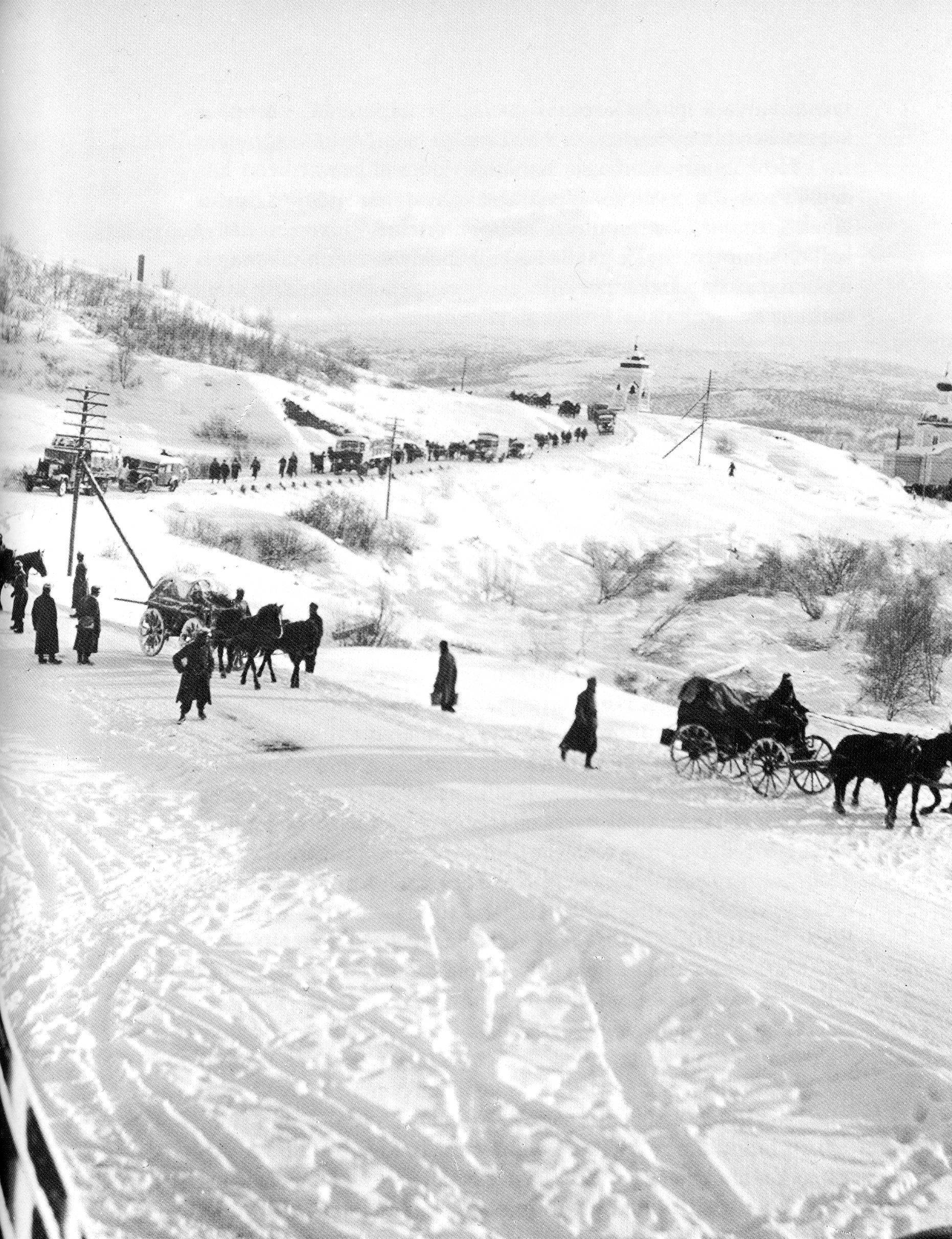 German troops marching towards the front in Litsa River. Alaluostari Village, Petsamo. Finland. Source p. 369